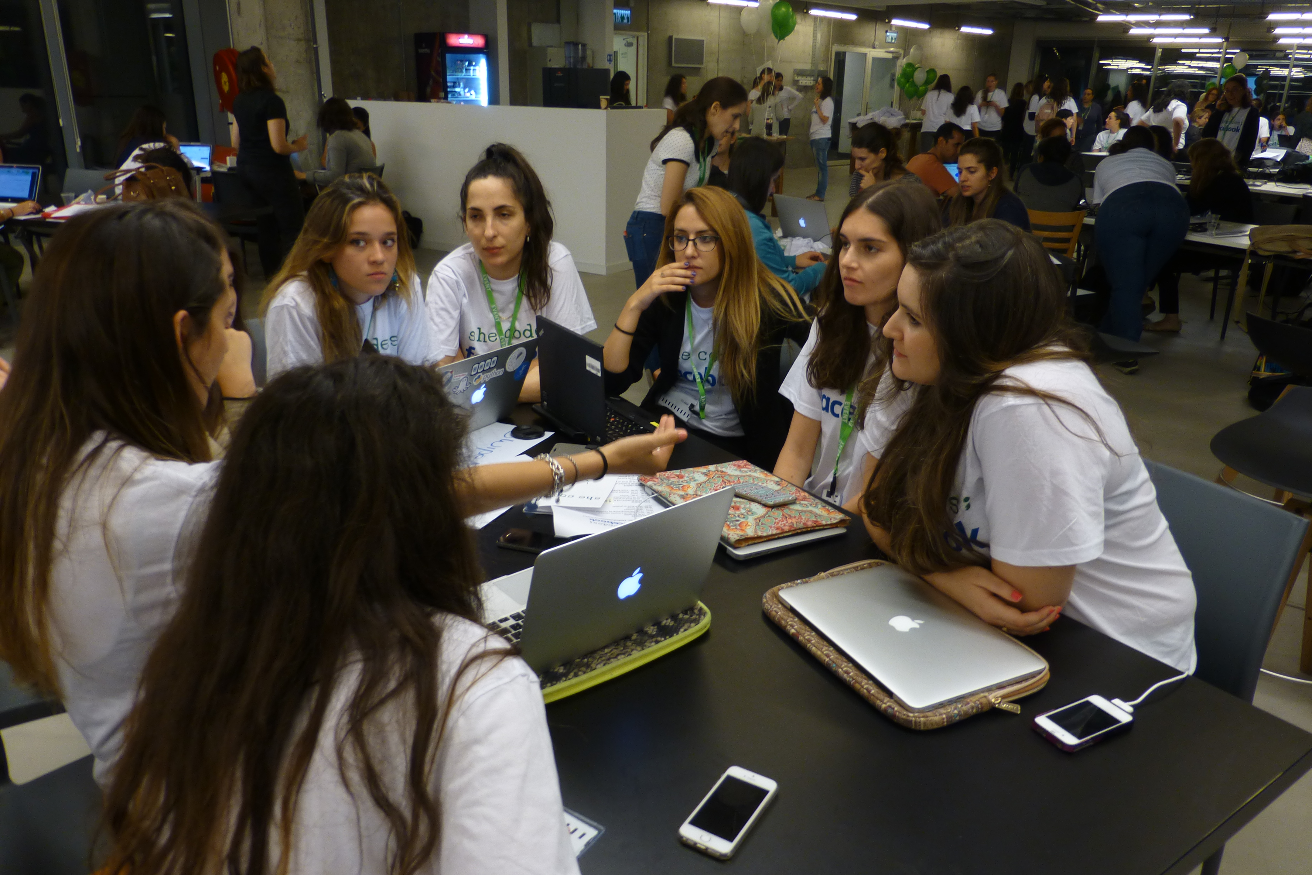 She Codes Hackathon 2015 @Facebook